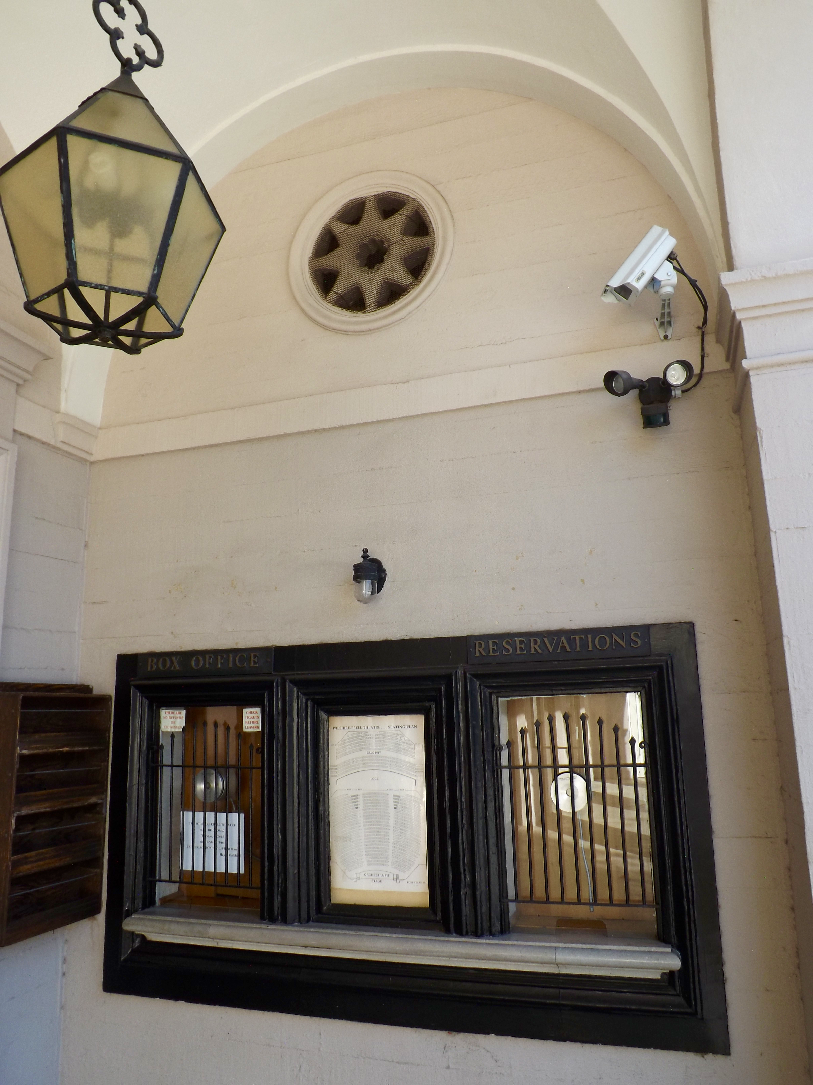 Box office of Wilshire Ebell Theater, Los Angeles, 2015. To be used in Ebell of Los Angeles article. Other information Photo by George Garrigues